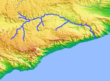 map of Wadi Hadhramaut (Yemen river)